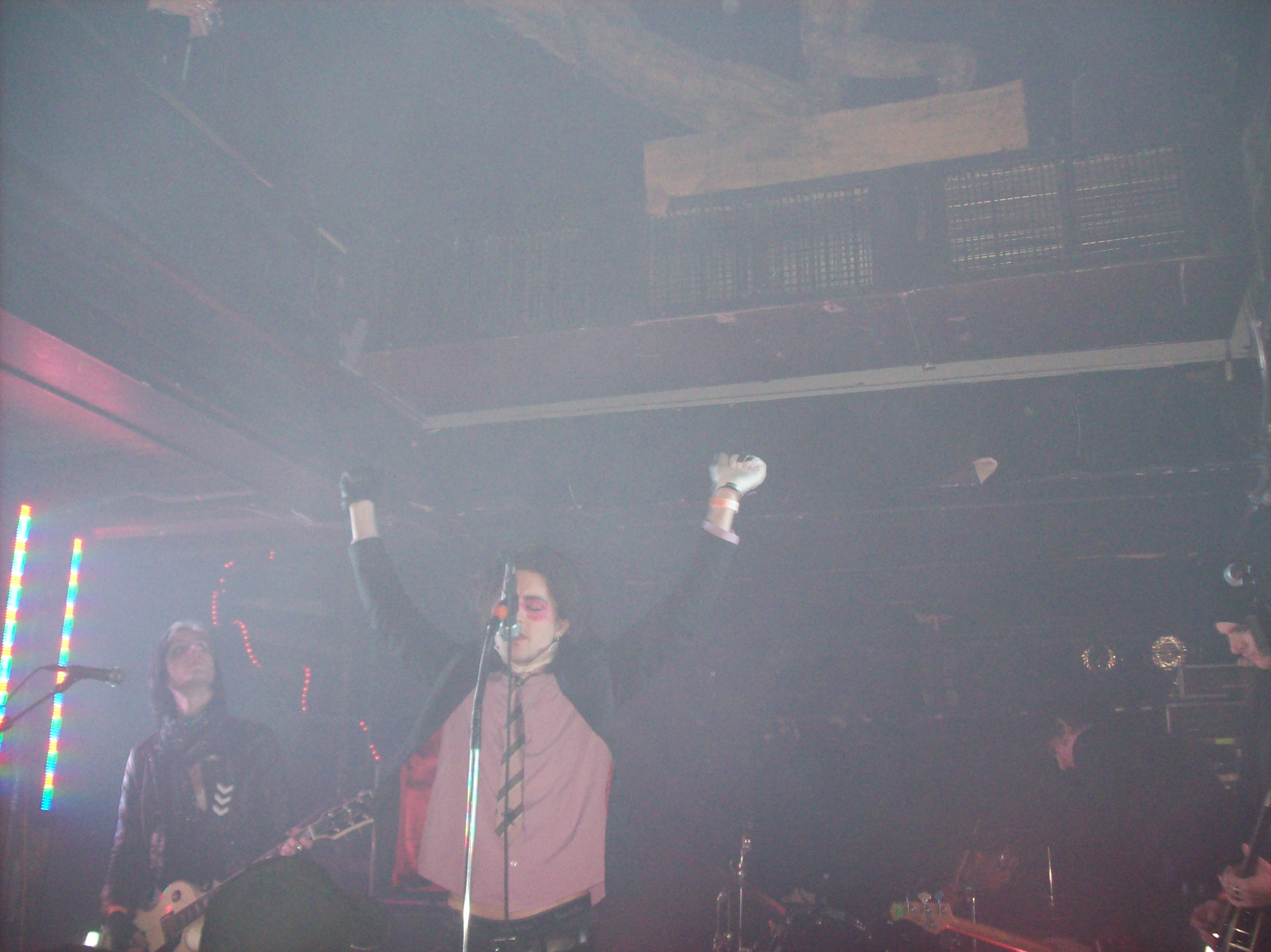 Kill Hannah performing at Subterranean in Chicago.